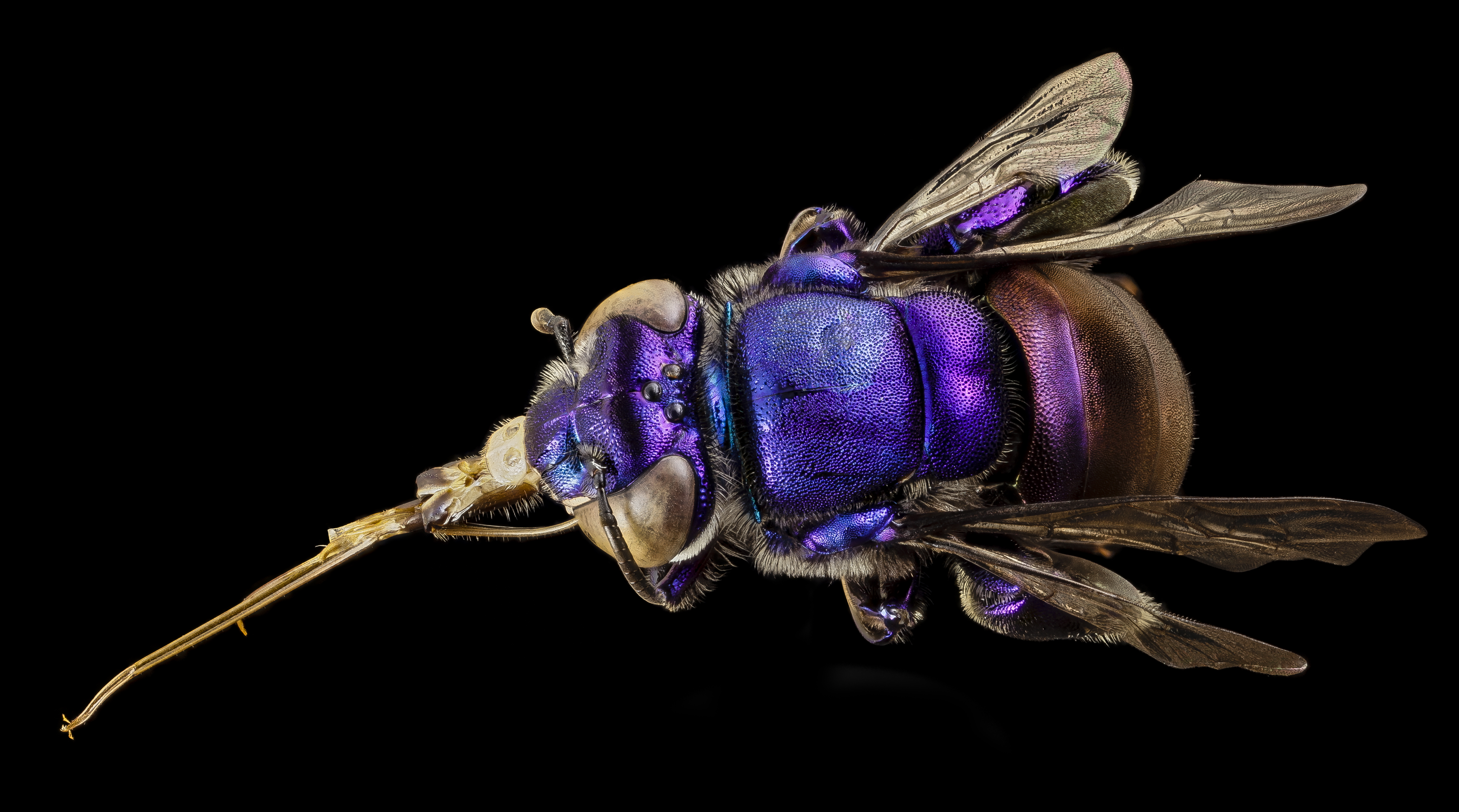 Another orchid bee in the genus Euglossa from Guyana. At present no species name, but perhaps some day I will have time to work with David Roubik on the many species we collected on a Smithsonian expedition into the interior jungles. This is a male, collected using some of the orchid floral scents to attract them that they use in courtship rituals. 17:00, 17 November 2014 (UTC)17:00, 17 November 2014 (UTC) 0 17:00, 17 November 2014 (UTC)17:00, 17 November 2014 (UTC) All photographs are public domain, feel free to download and use as you wish. Photography Information: Canon Mark II 5D, Zerene Stacker, Stackshot Sled, 65mm Canon MP-E 1-5X macro lens, Twin Macro Flash in Styrofoam Cooler, F5.0, ISO 100, Shutter Speed 200 Further in Summer than the Birds Pathetic from the Grass A minor Nation celebrates Its unobtrusive Mass. No Ordinance be seen So gradual the Grace A pensive Custom it becomes Enlarging Loneliness. Antiquest felt at Noon When August burning low Arise this spectral Canticle Repose to typify Remit as yet no Grace No Furrow on the Glow Yet a Druidic Difference Enhances Nature now -- Emily Dickinson Want some Useful Links to the Techniques We Use? Well now here you go Citizen: Basic USGSBIML set up: USGSBIML Photoshopping Technique: Note that we now have added using the burn tool at 50% opacity set to shadows to clean up the halos that bleed into the black background from "hot" color sections of the picture. PDF of Basic USGSBIML Photography Set Up: ftp://ftpext.usgs.gov/pub/er/md/laurel/Droege/How%20to%20Take%20MacroPhotographs%20of%20Insects%20BIML%20Lab2.pdf Google Hangout Demonstration of Techniques: or Excellent Technical Form on Stacking: Contact information: Sam Droege 301 497 5840